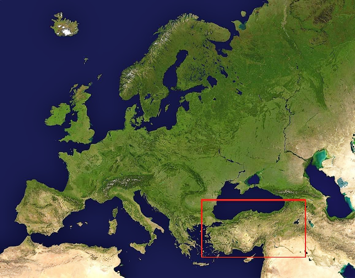 Turkey and Europe